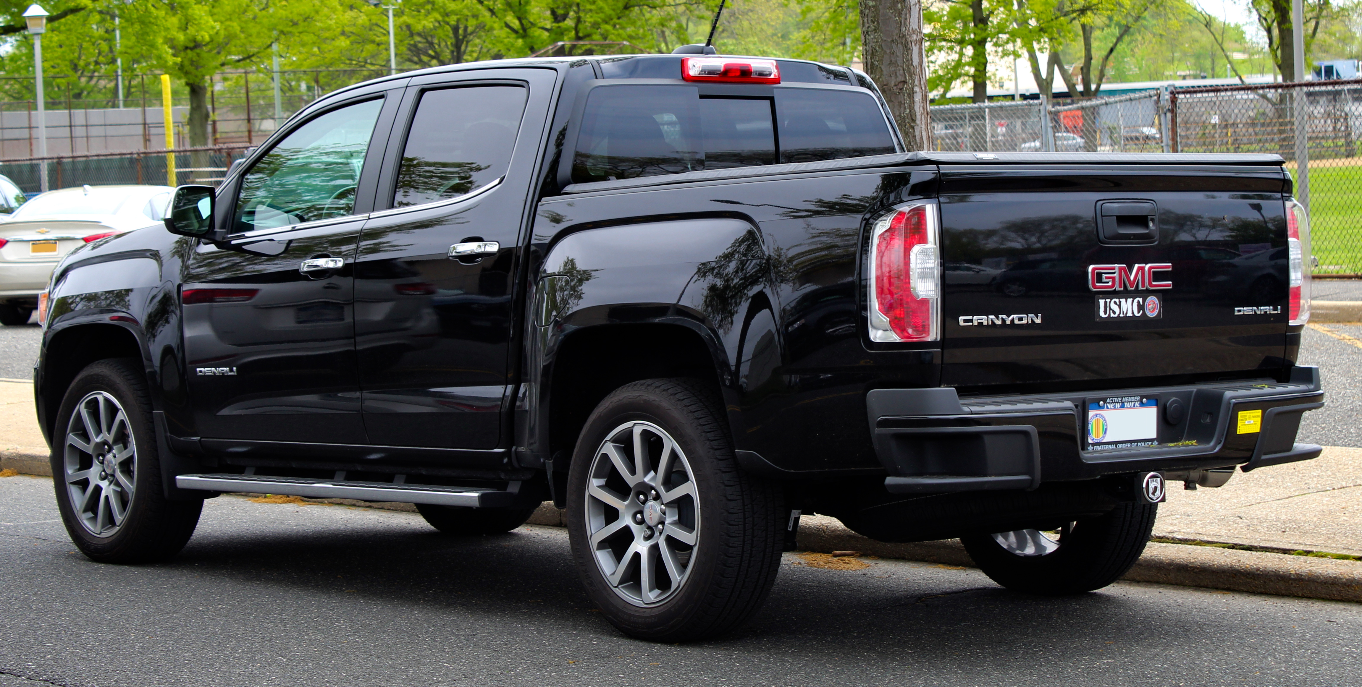 A 2018 GMC Canyon Denali photographed at Merrick, New York, USA